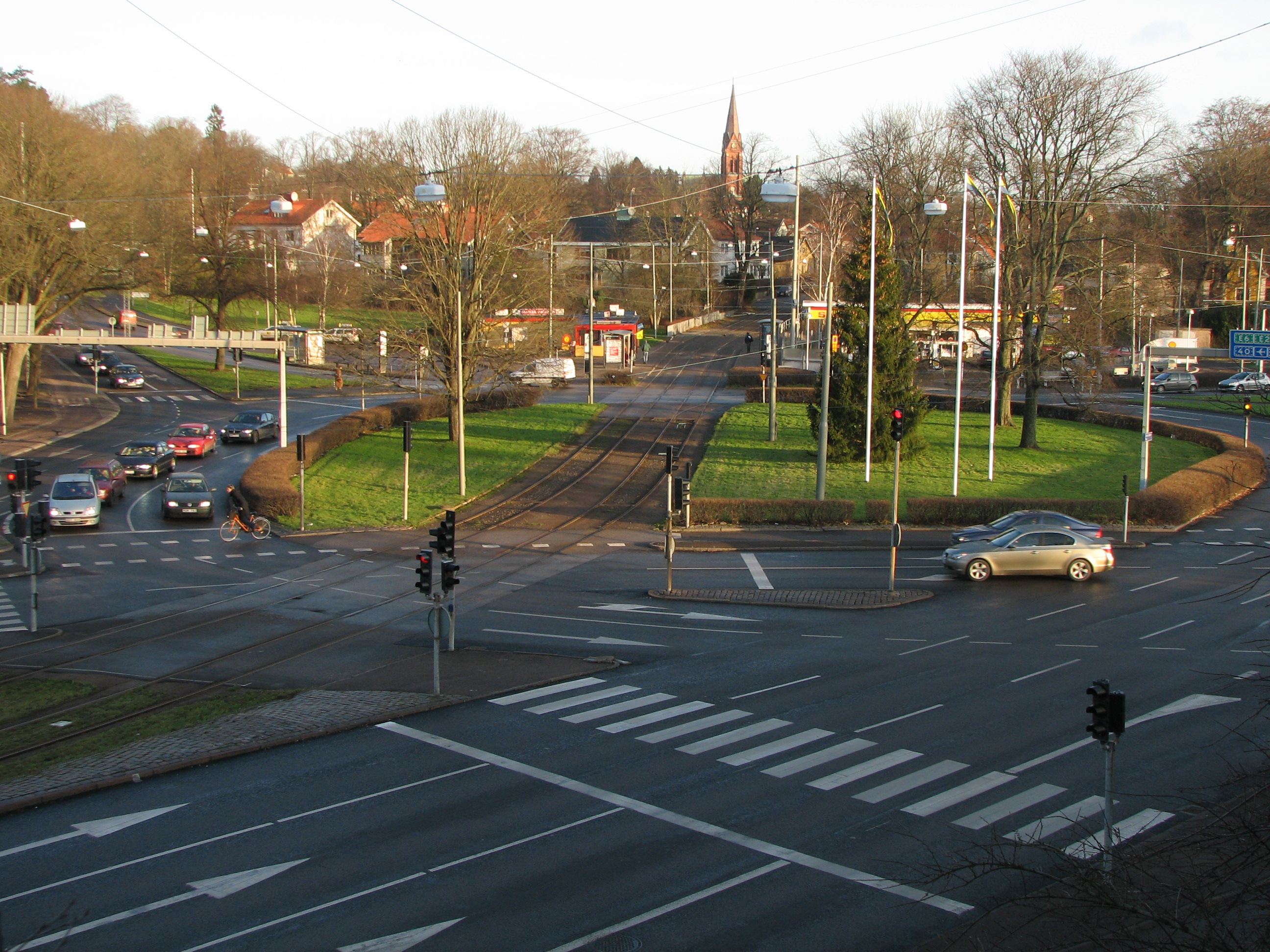 The crossroads "Sankt Sigfrids Plan" in Göteborg, seen from SW. The church "Örgryte Nya Kyrka" rises in the background.